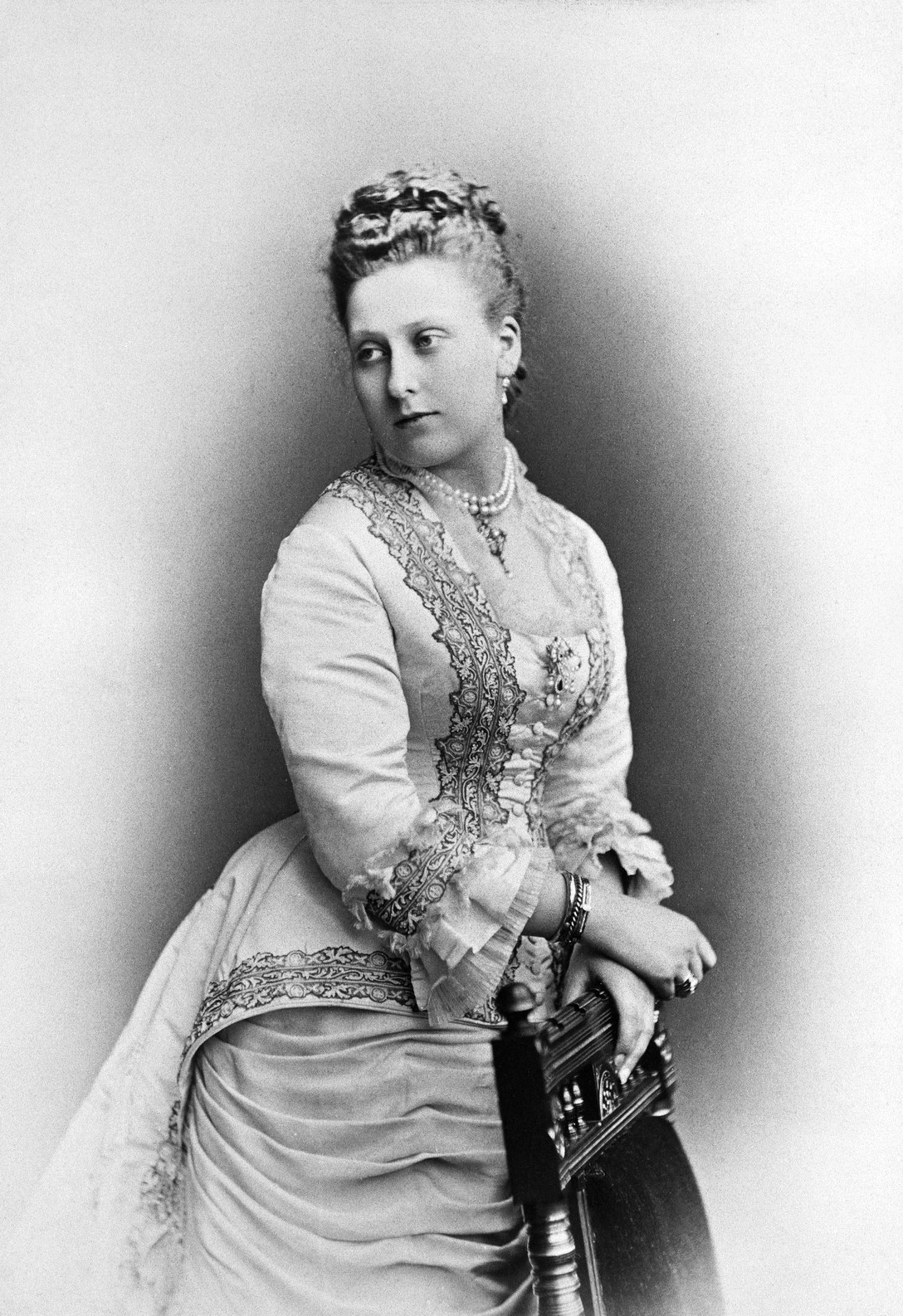 3/4 length of Princess Beatrice standing, her hands on the back of a chair. Long-sleeved dress w. a low neckline, bracelets, necklace, earrings. Vignette.